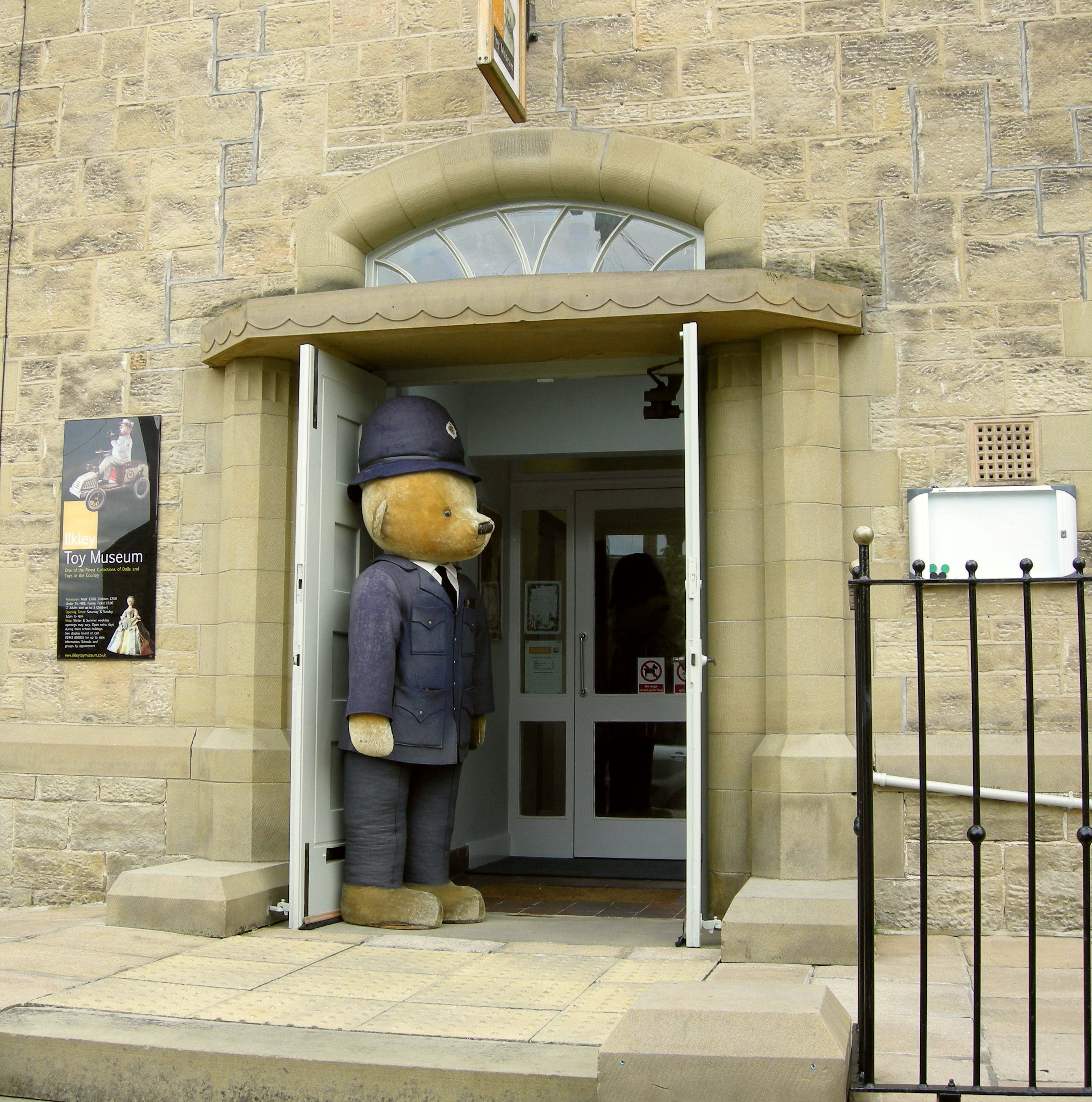 Ilkley Toy Museum, Ilkley, West Yorkshire, England. Photographed from public footpath.